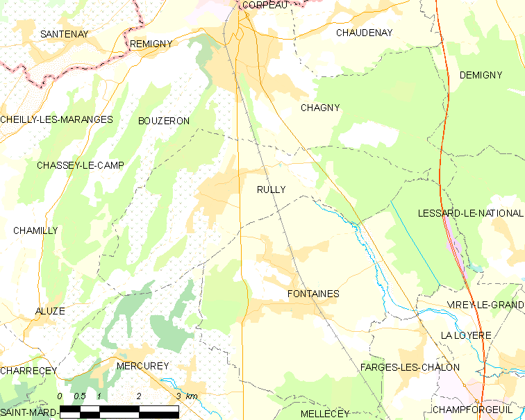 Map of French municipality